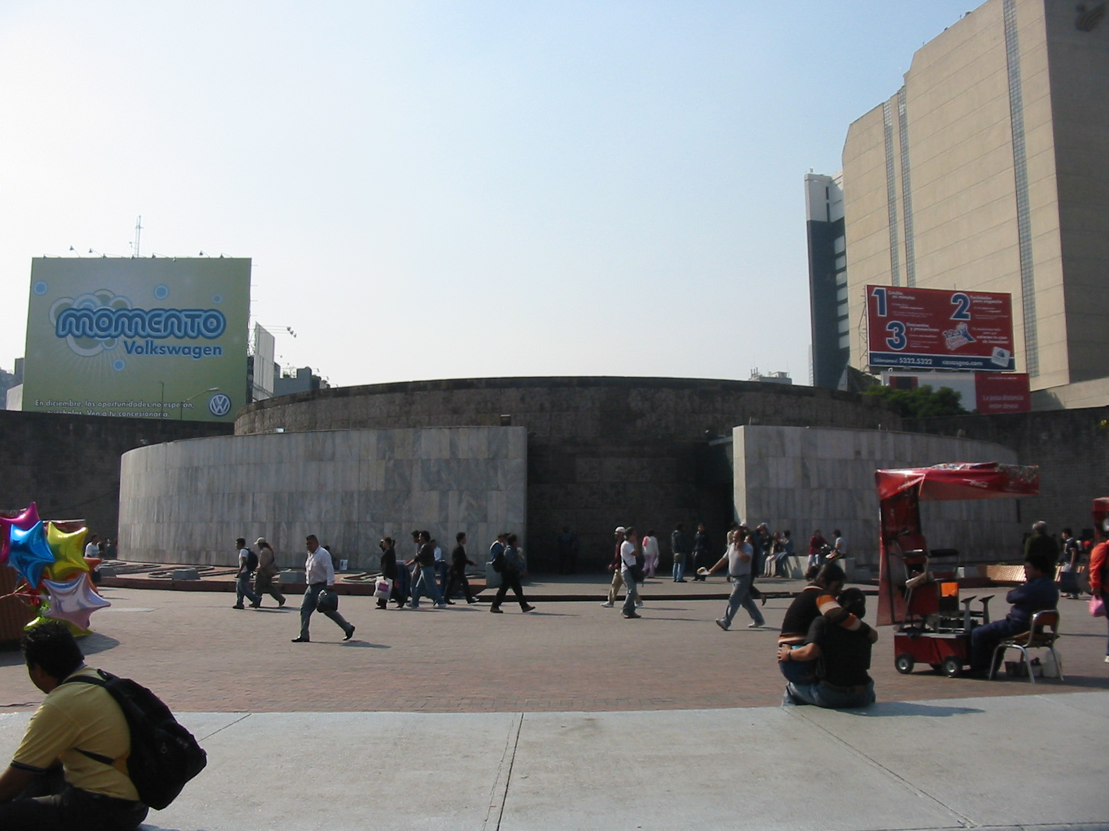 Outside entrance of Metro Insurgentes in Mexico City